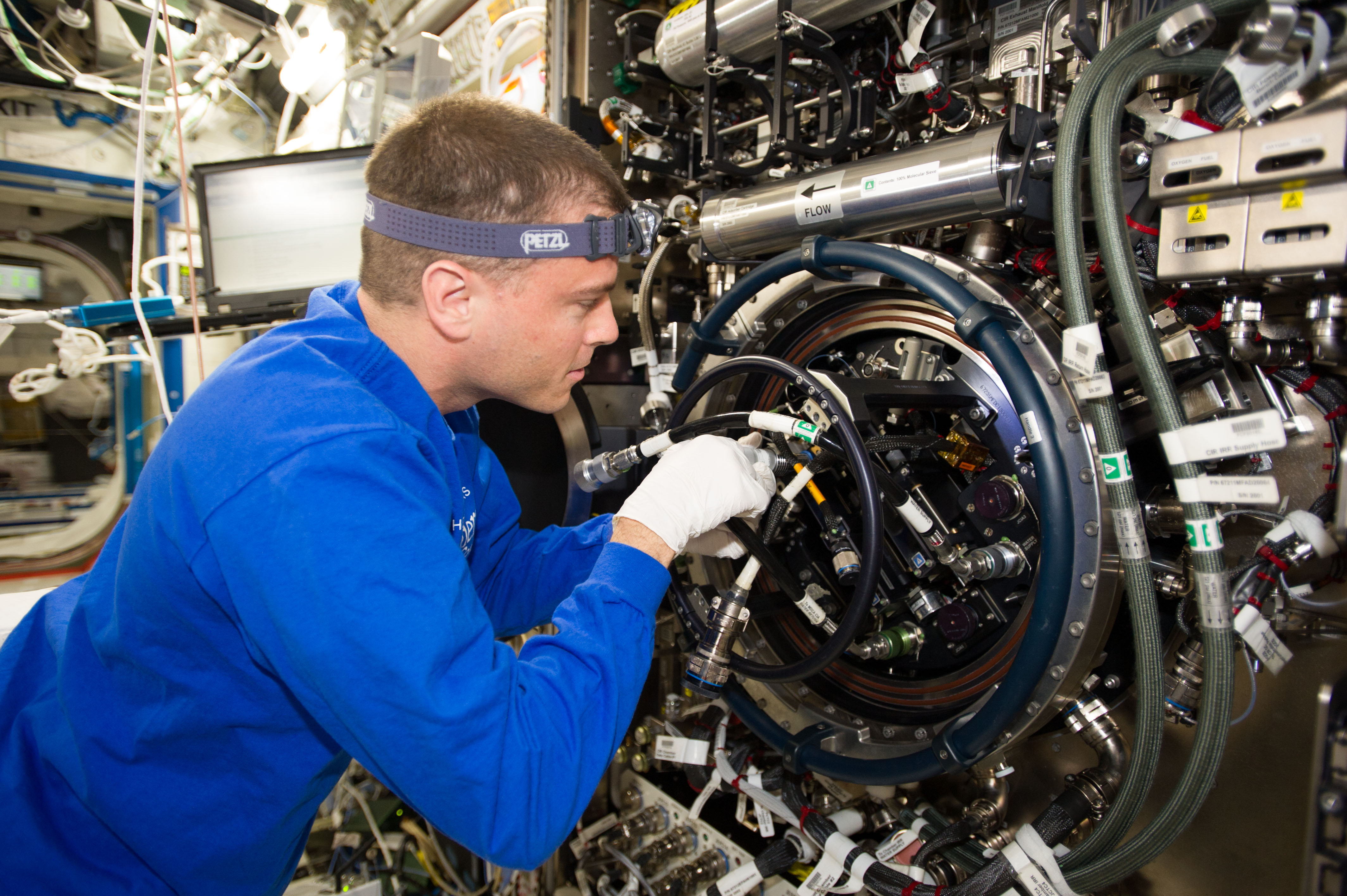 NASA astronaut Reid Wiseman, Expedition 40 flight engineer, performs routine in-flight maintenance on the Multi-user Drop Combustion Apparatus (MDCA) inside the Combustion Integrated Rack (CIR) in the Destiny laboratory of the International Space Station. The MDCA contains hardware and software to conduct unique droplet combustion experiments in space.